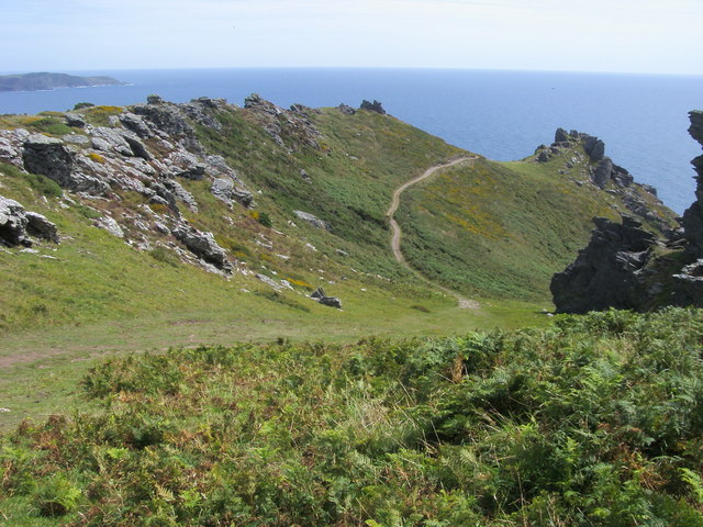 Nearing Bolt Head Footpath nearing Bolt Head